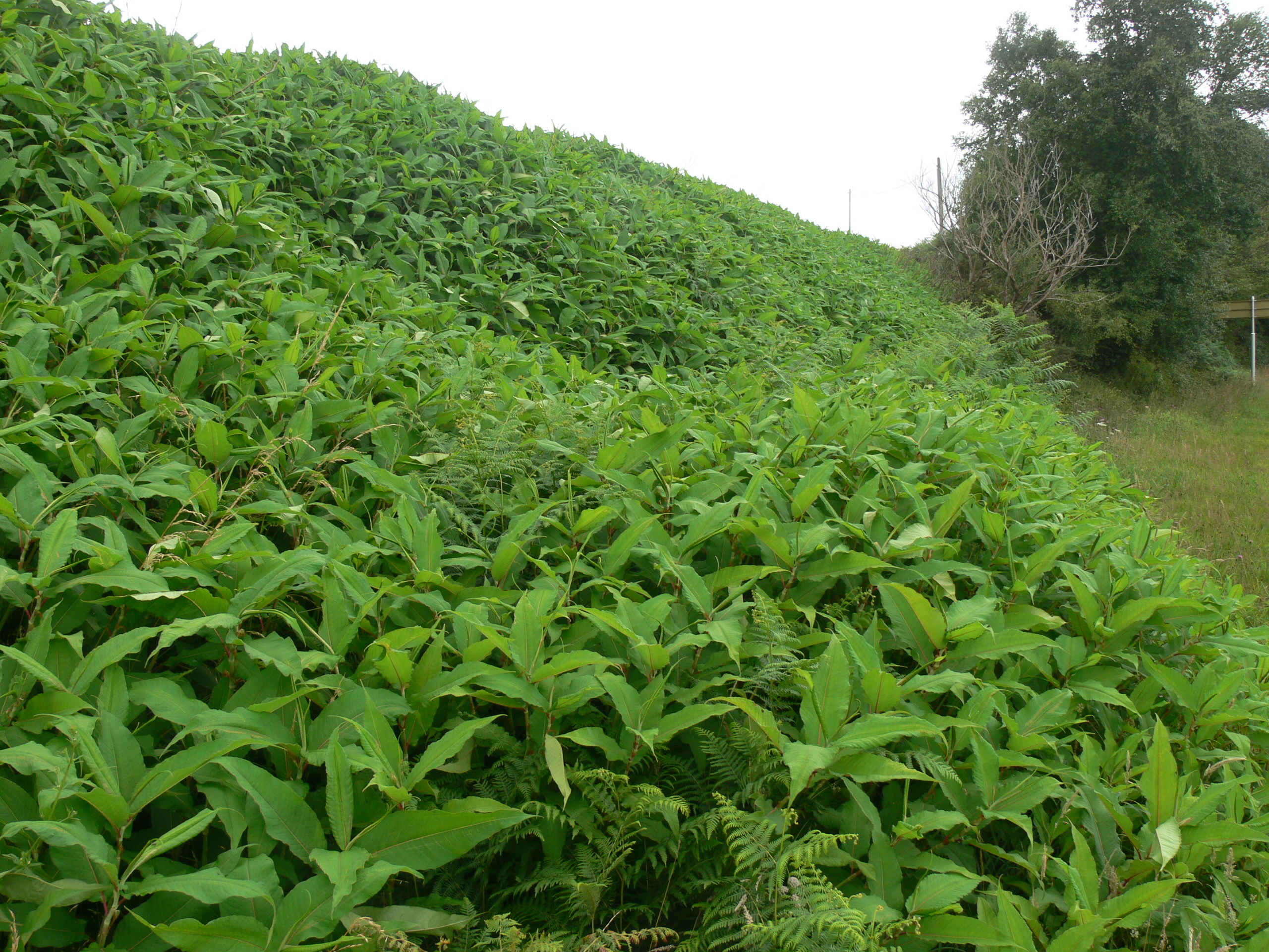 Polygonum polystachyum in Finistère (Britany, W of France). This plant introduced in this country is locally invasive. It is a species of flowering plant in the knotweed family known by the common names Himalayan knotweed and cultivated knotweed.